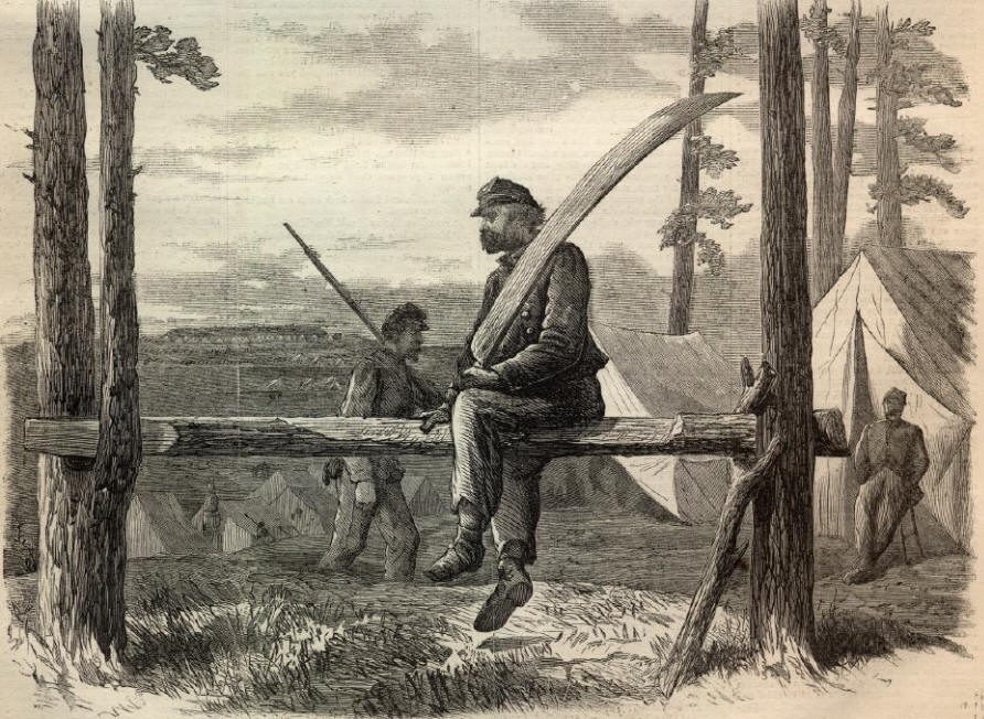 Riding a rail, sketched by A. W. Warren, published by Harper's Weekly, November 1864